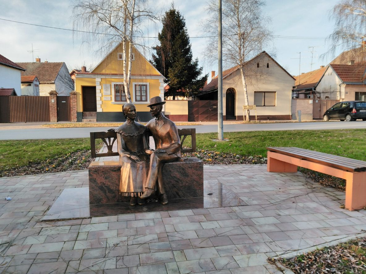 Ivan Kozarac house and moument.